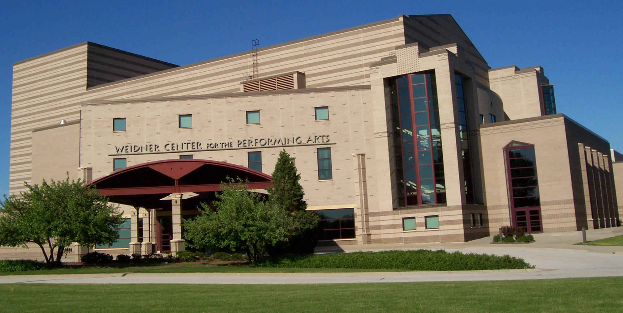 The Weidner Center on the campus of the University of Wisconsin-Green Bay near Green Bay, Wisconsin, USA.